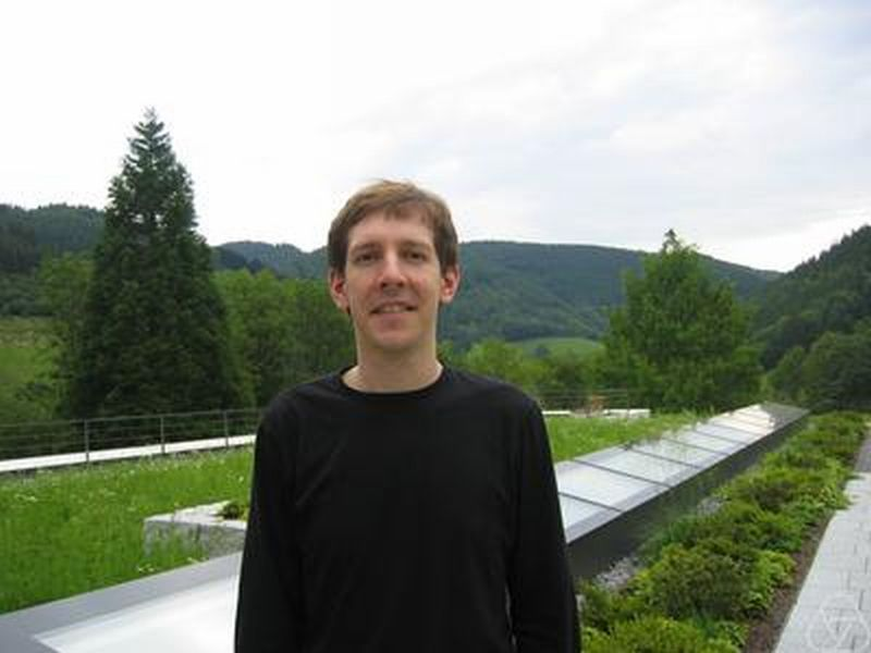 Frank Calegari, Oberwolfach 2007